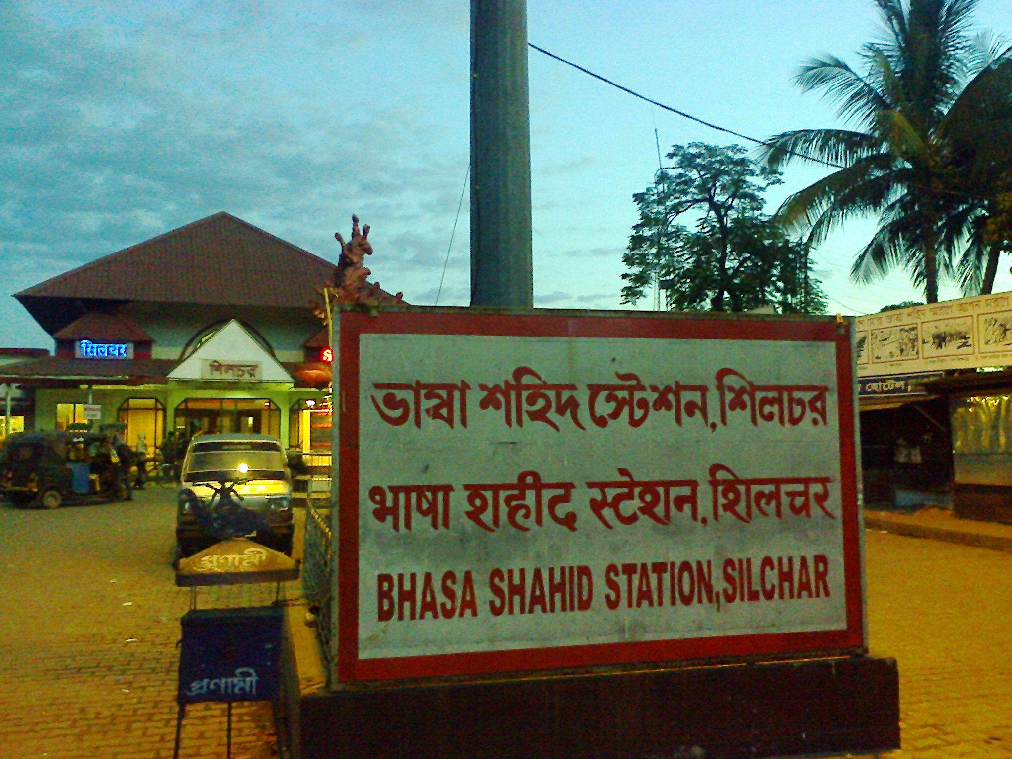 Silchar Railway Station is described as Bhasa Shahid Station